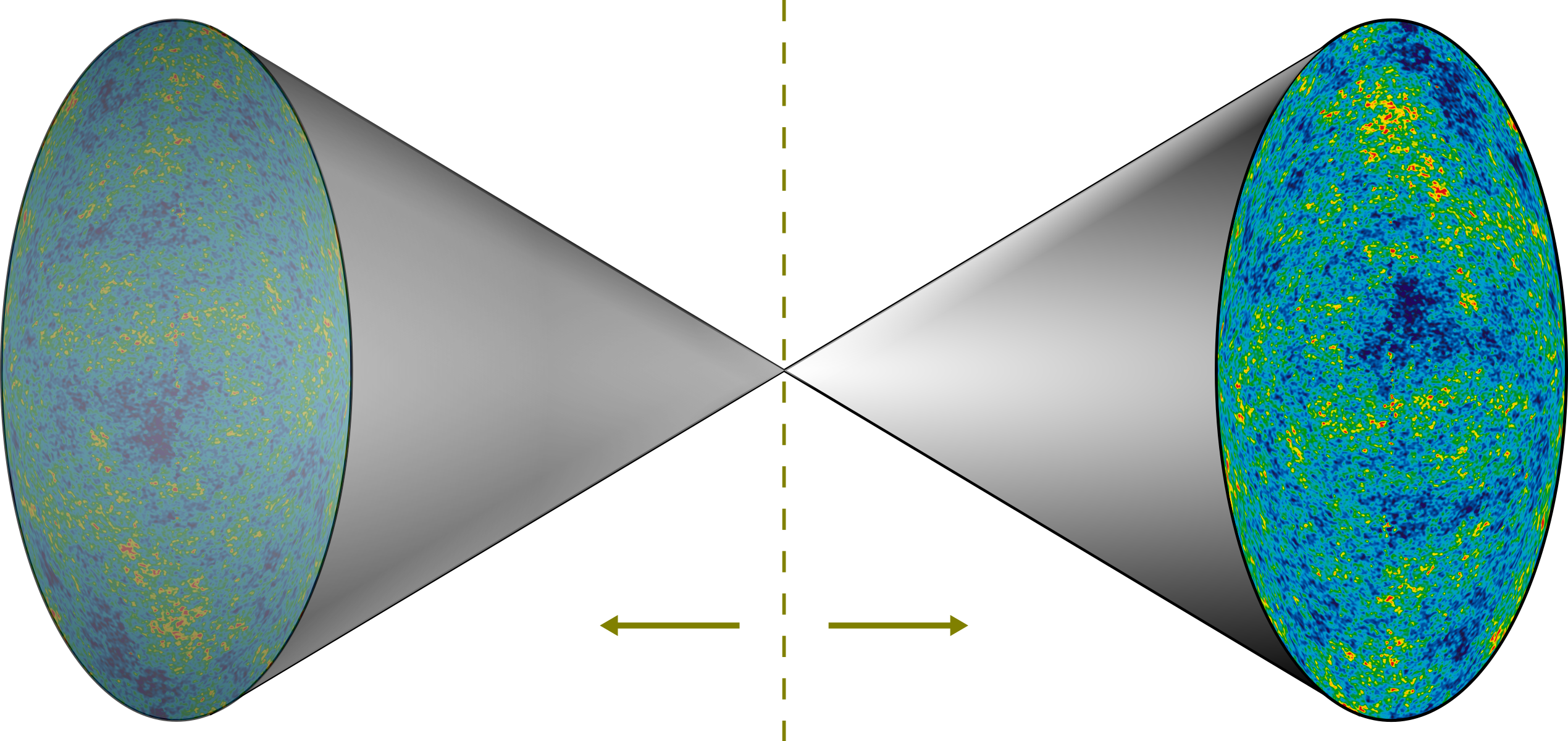 A cosmology model which suggests that our Universe has a mirror image of itself in the form of an antiuniverse.